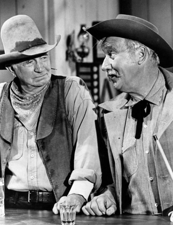 Photo of Walter Brennan and Edward Andrews from the television program The Guns of Will Sonnett.